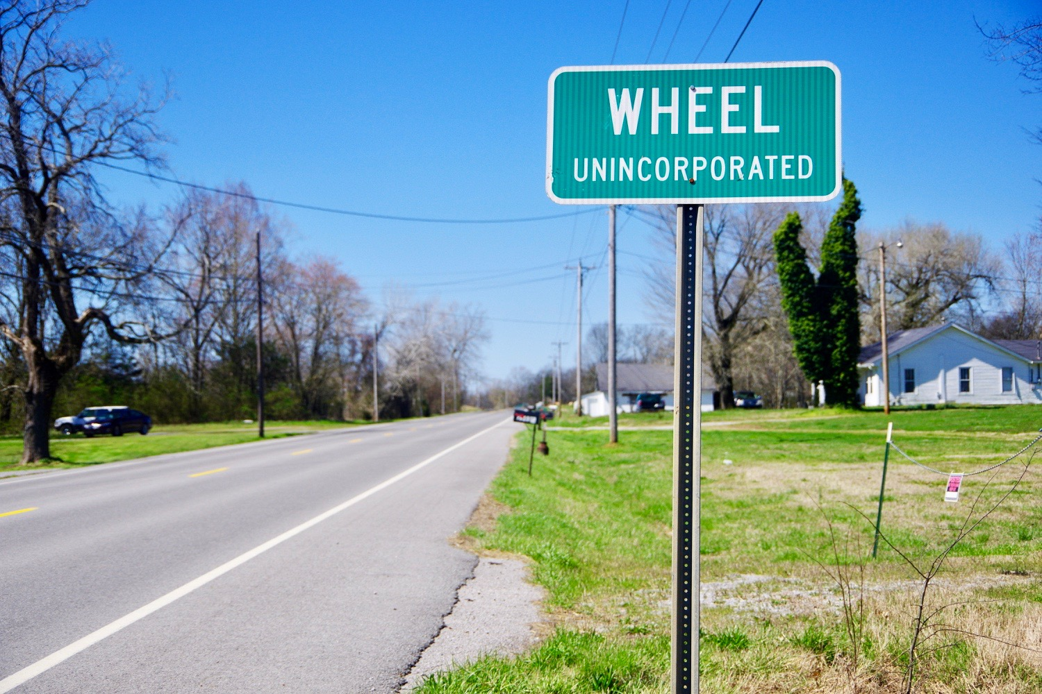 Sign along State Route 64 at the entrance to the community of Wheel in Bedford County, Tennessee, United States.